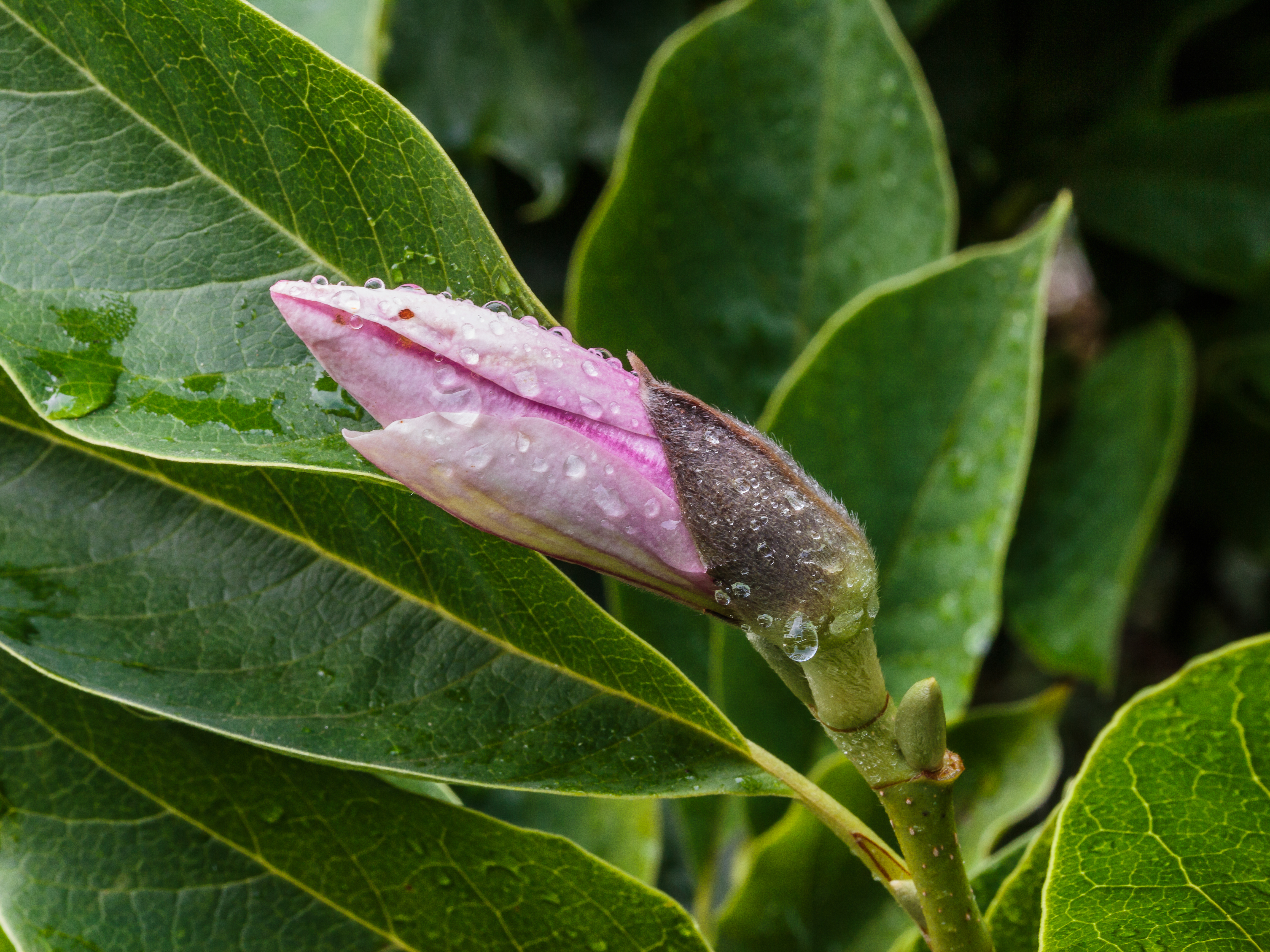 Flower bud of a Magnolia covered with raindrops. (After flowering in August).